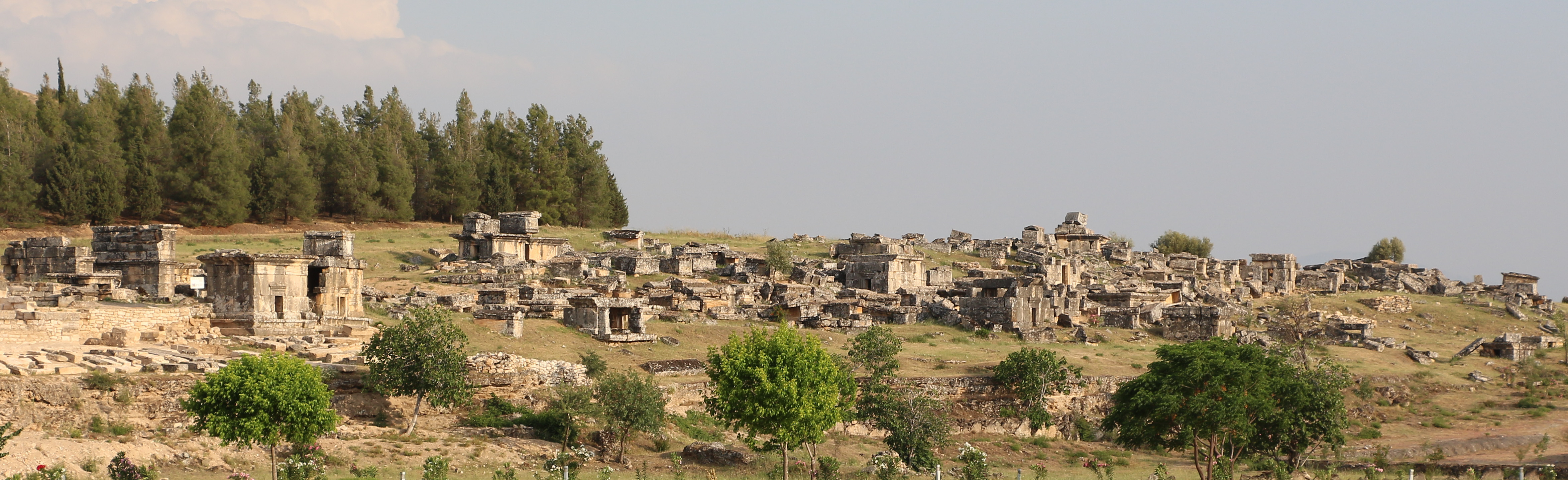 Necropolis of Hiérapolis, Turkey